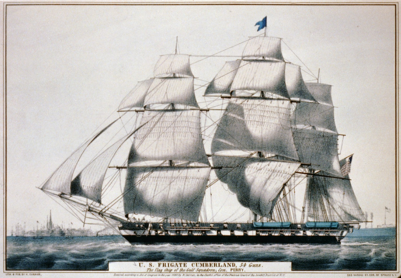 "U.S. Frigate Cumberland, 54 Guns. The flag ship of the Gulf Squadron, Com. Perry". Lithograph, hand-colored. U.S. Library of Congress, Prints and Photographs Division. Reproduction number LC-USZC2-3119. U.S. Navy Art Collection, Washington, D.C. Reproduction number NH 64089-KN.